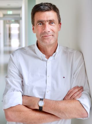 Picture of Thorsten Bach